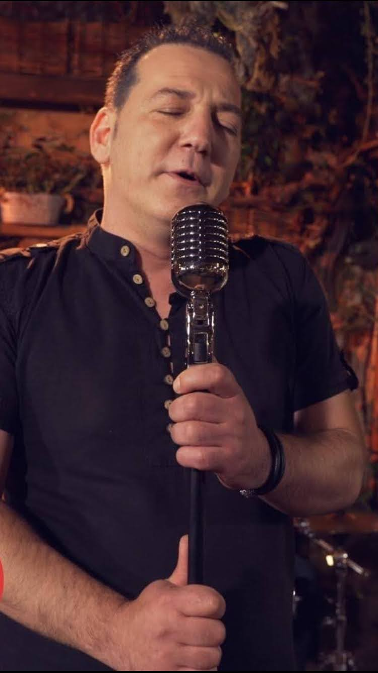 Epoka 94 frontman